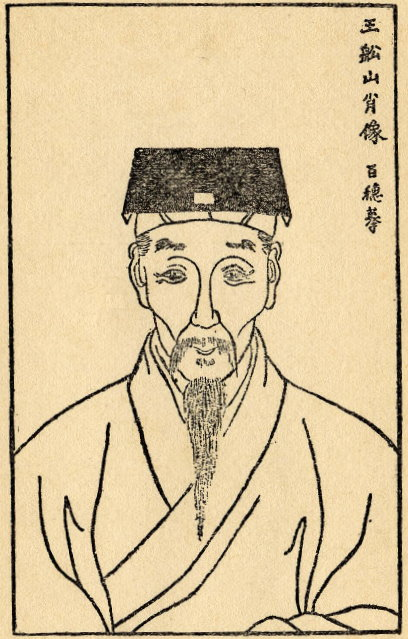 This picture is portraiture of Wang Fuzhi（王夫之）.